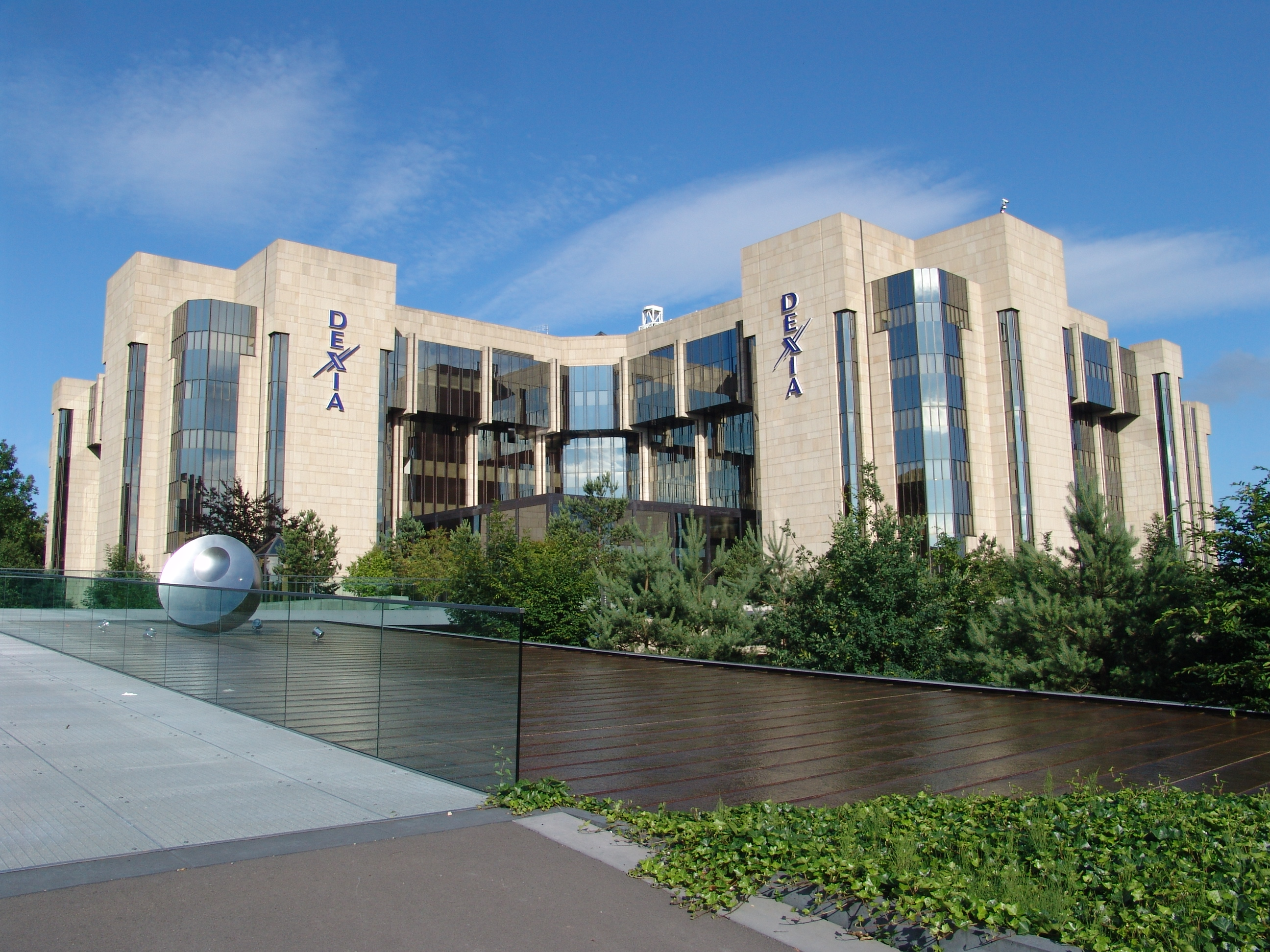 Dexia International Bank in Luxembourg, photograph of the offices at 69, route d’Esch in Luxembourg City.